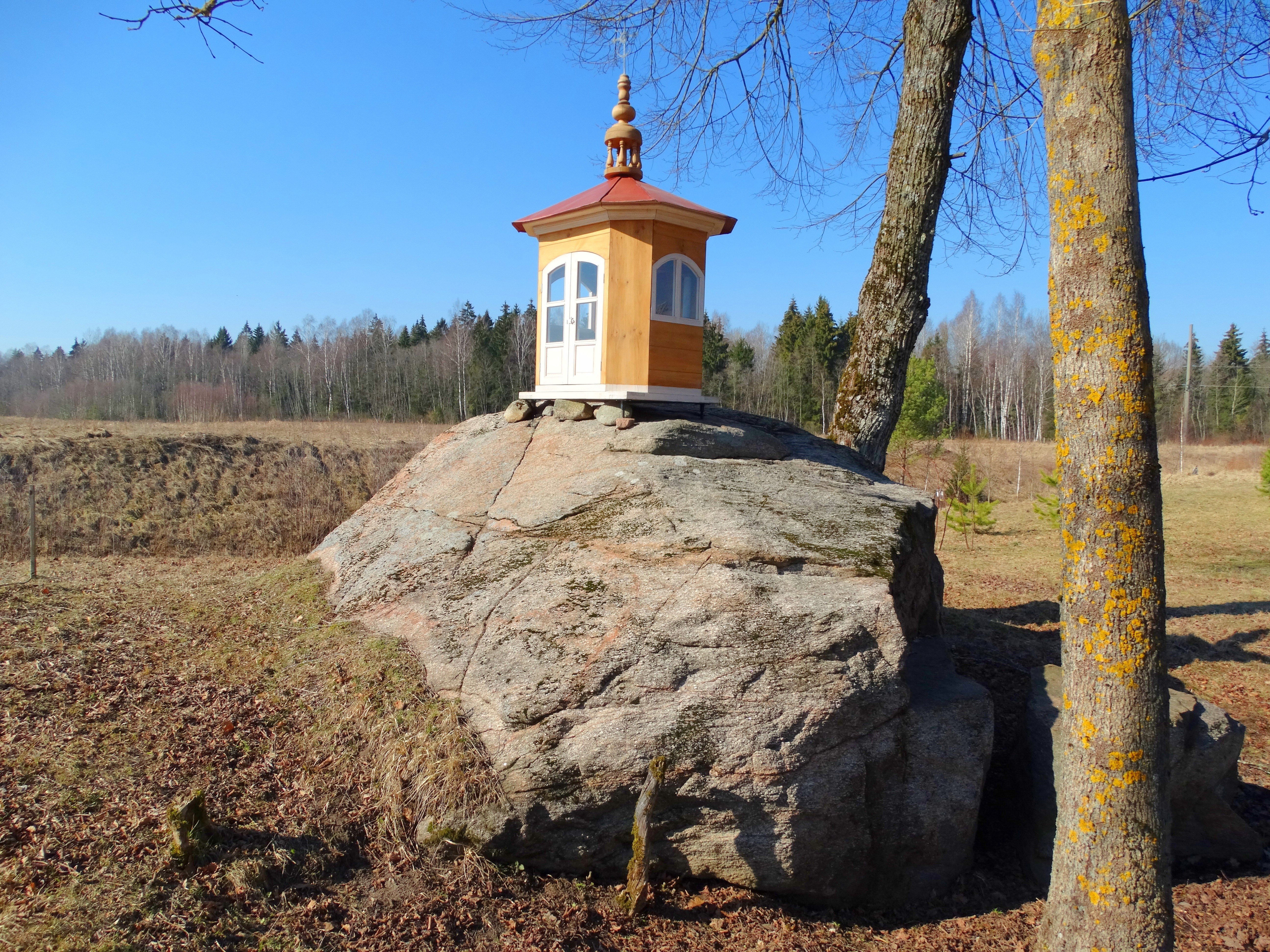 Akmenė stone and chapel, Raseiniai District, Lithuania